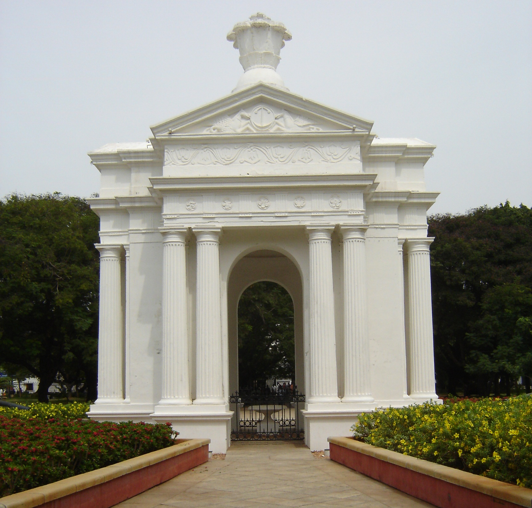 Park Monunemt (Aayi Mandapam) in the Governement Park of Puducherry, India